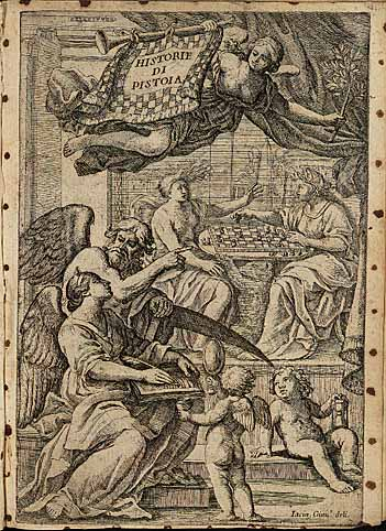 Illustration from Michelangelo Salvi's "Historie di Pistoia", published 1656-1662.